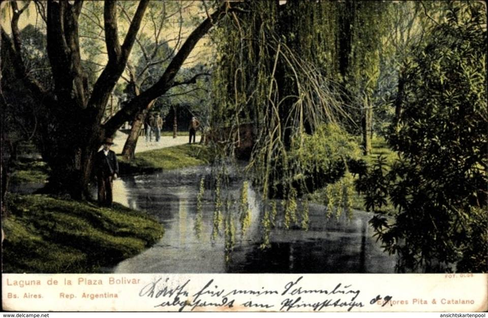 Lake in Plaza Bolívar (current Plaza Garay) on a postcard of the early twentieth century